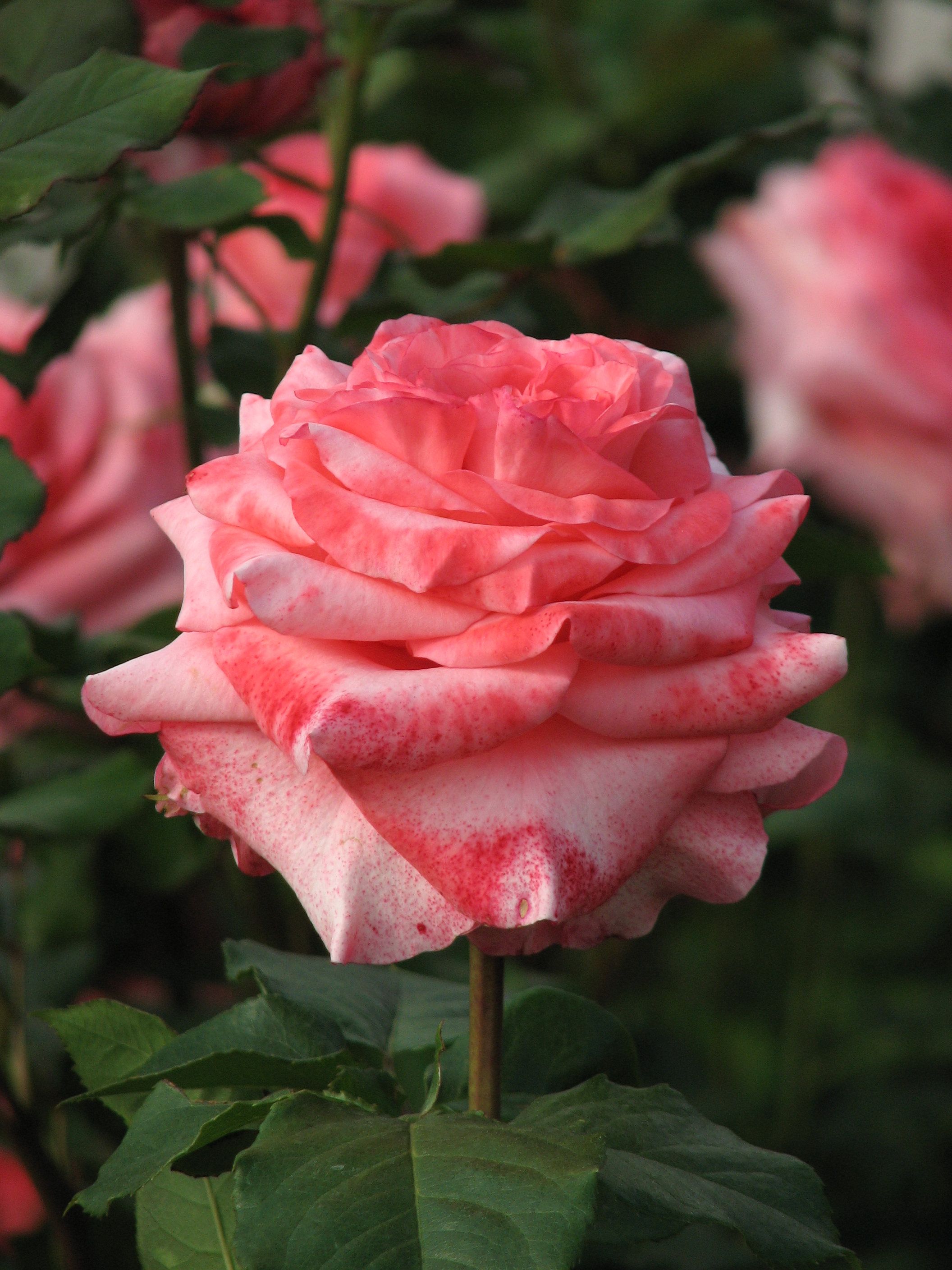 Rosa 'Arthur Rimbaud' (Meilland, 2008). From the collection of the Main Botanical Garden of Academy of Sciences in Moscow (Rosarium).